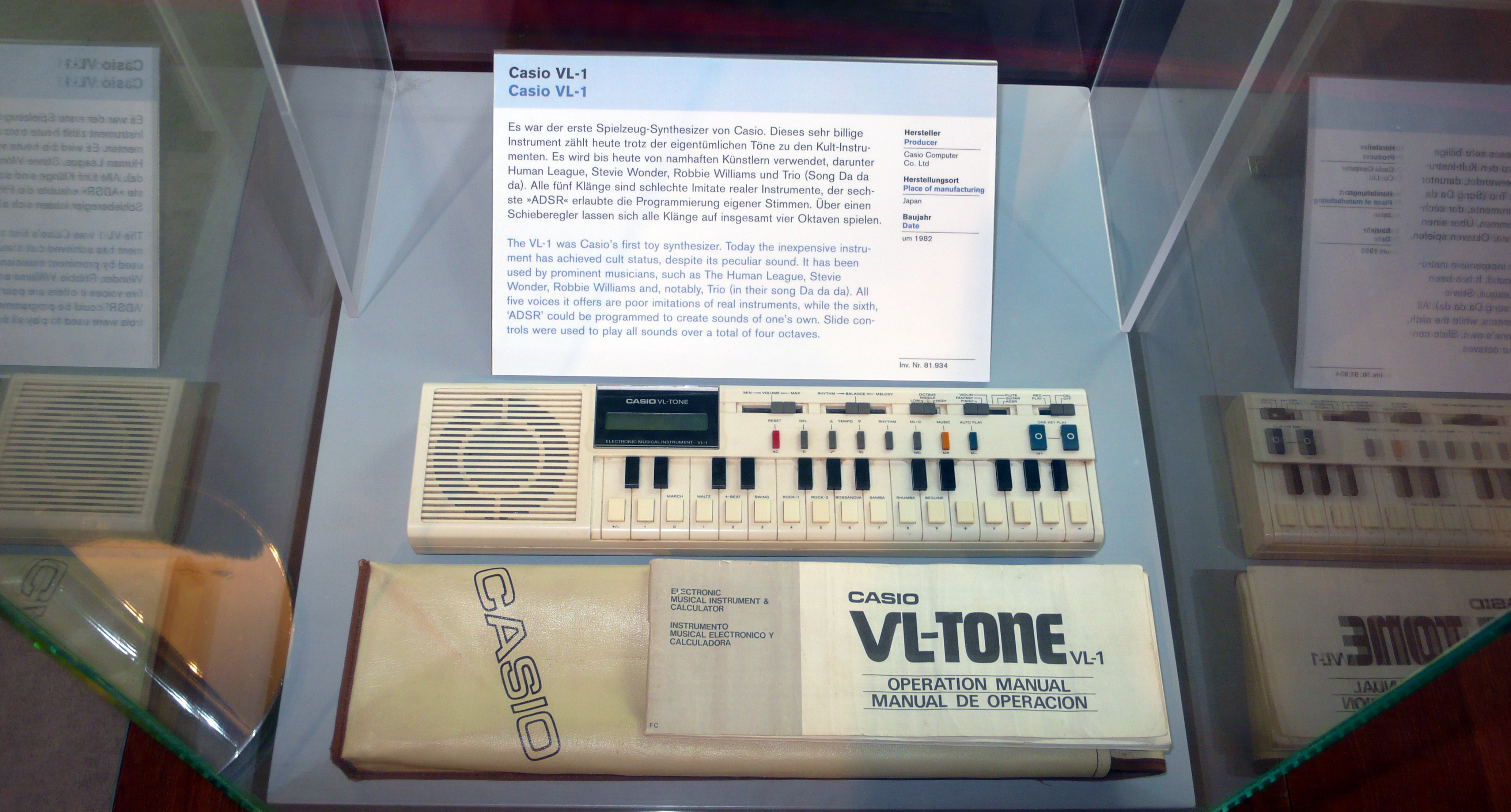 Casio VL-1 pocket synthesizer, released in 1980.